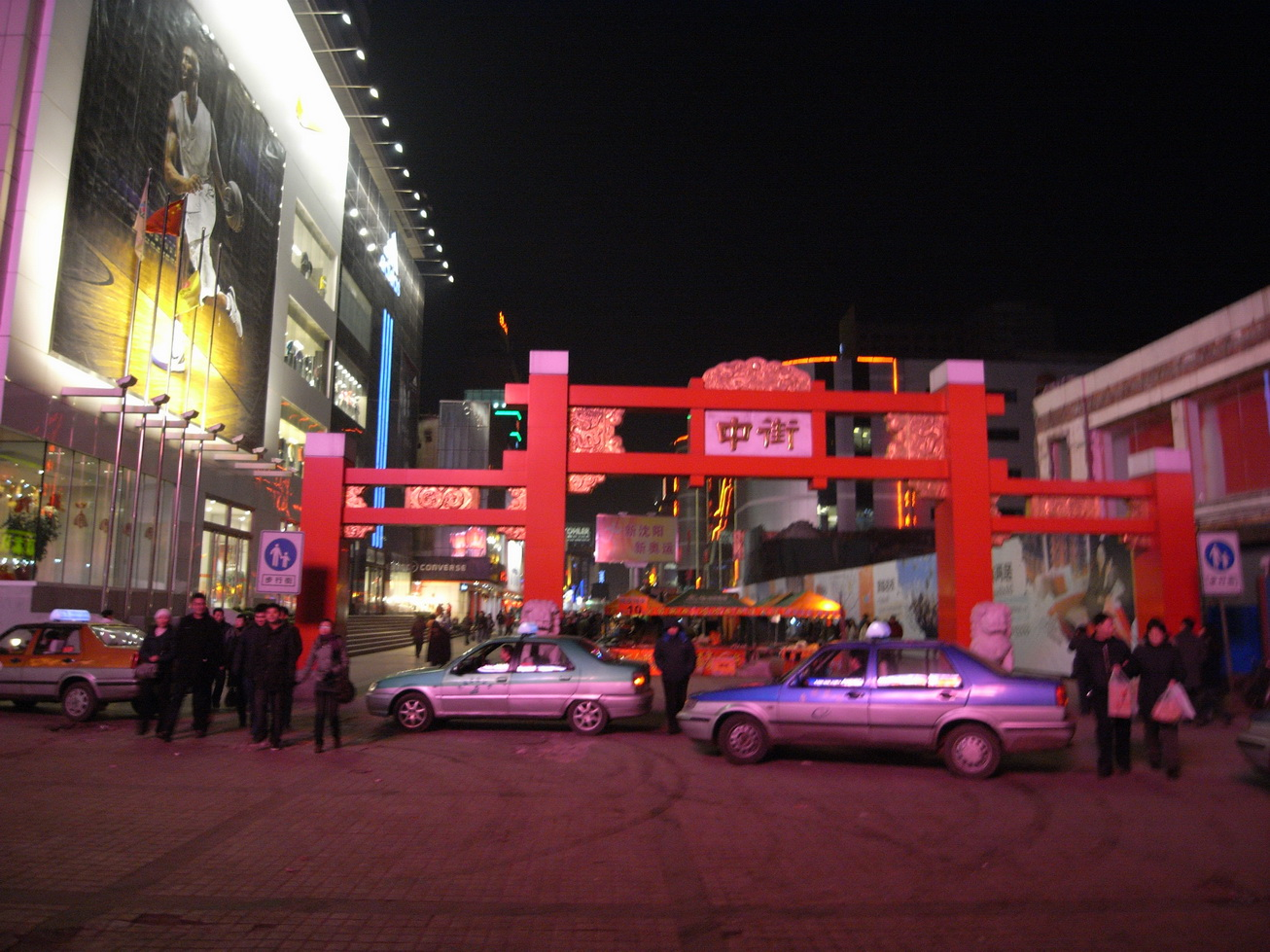 Zhong Jie 中街